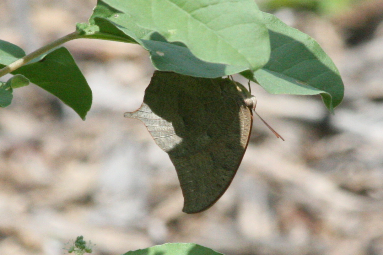 Goatweed leafwing (Anaea troglodyta andria)